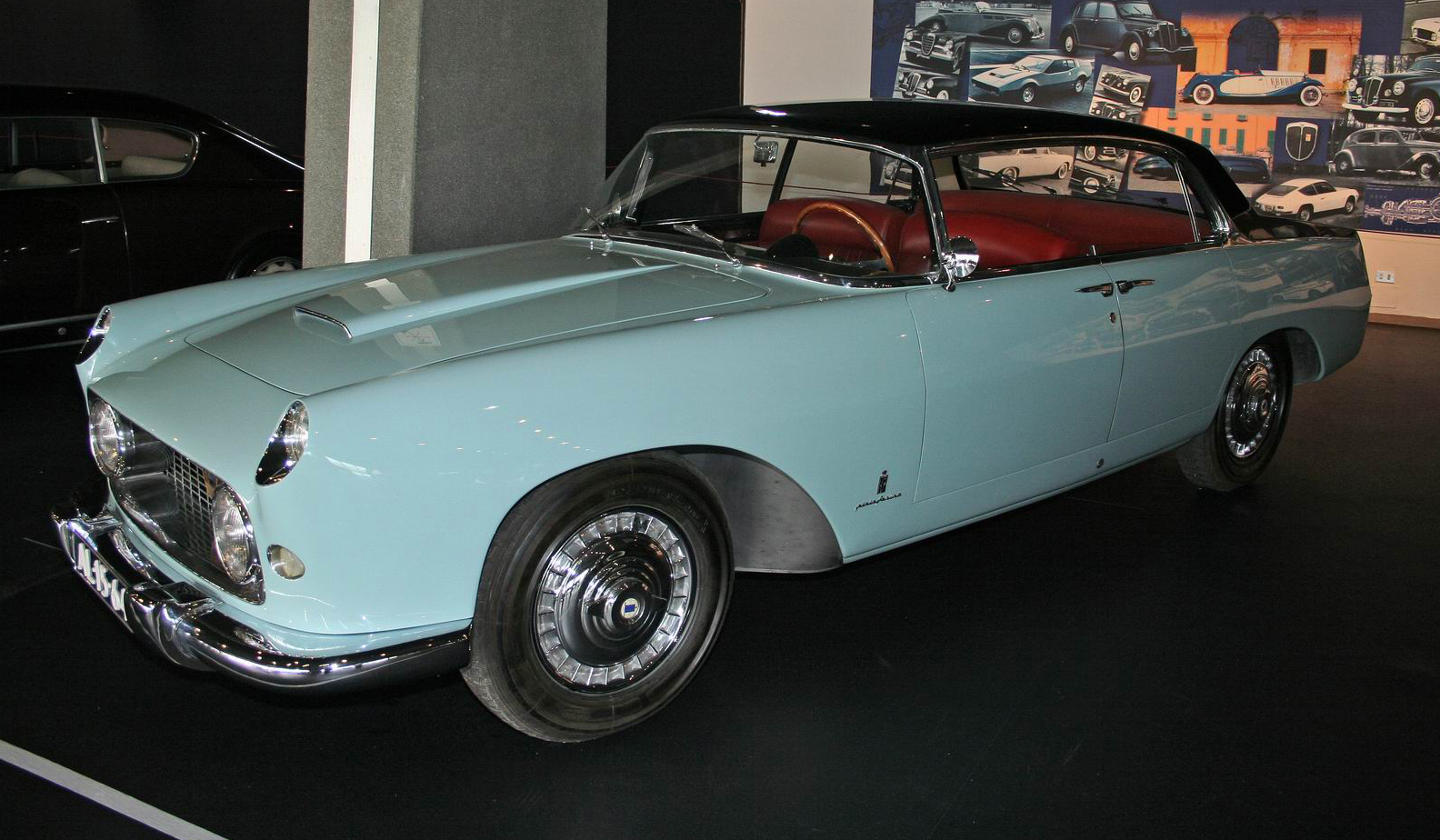 Lancia Florida I, B56 from 1955